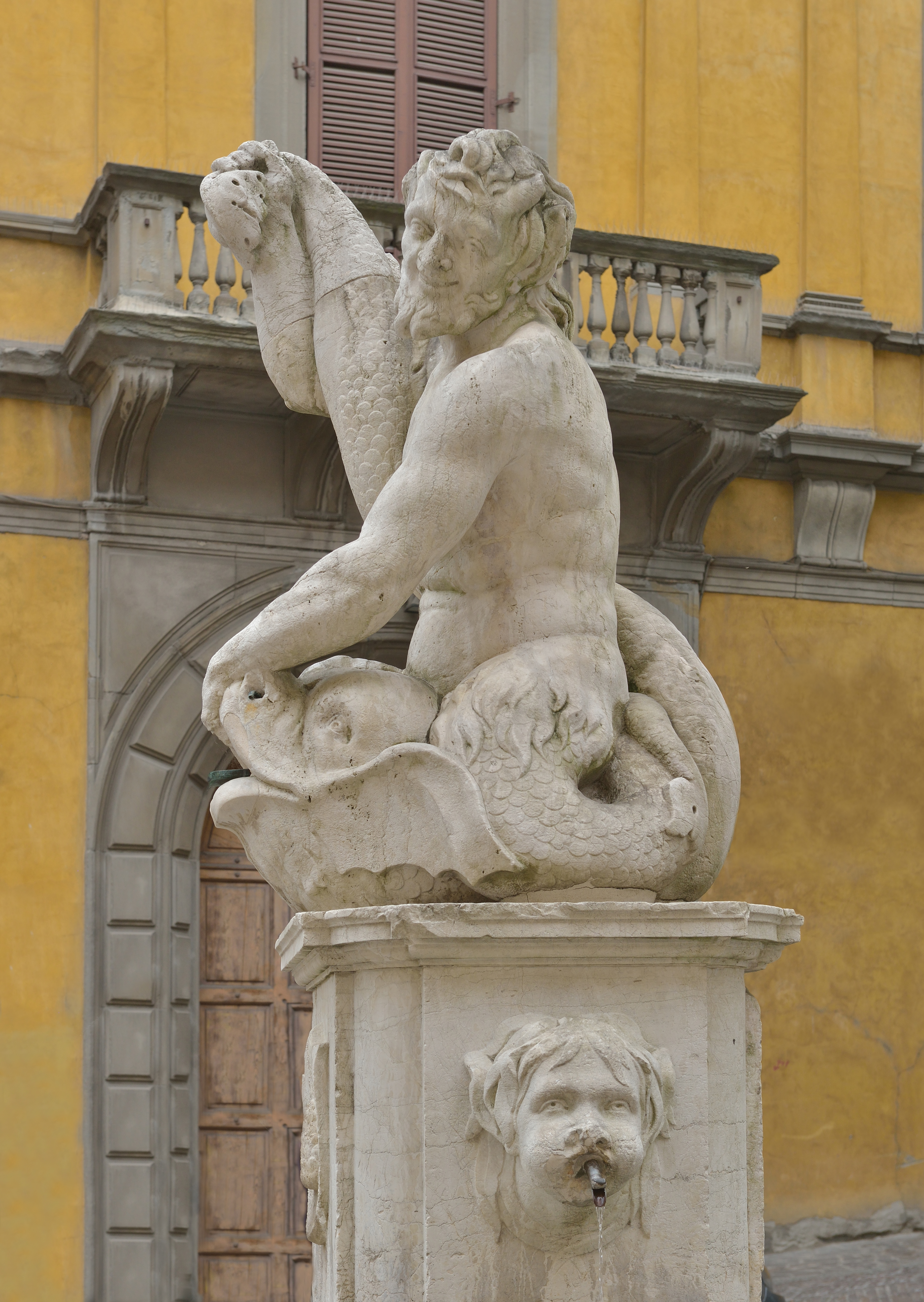 Dolphin fountain with Triton, AD 1526, on piazzetta di Pignolo in Bergamo